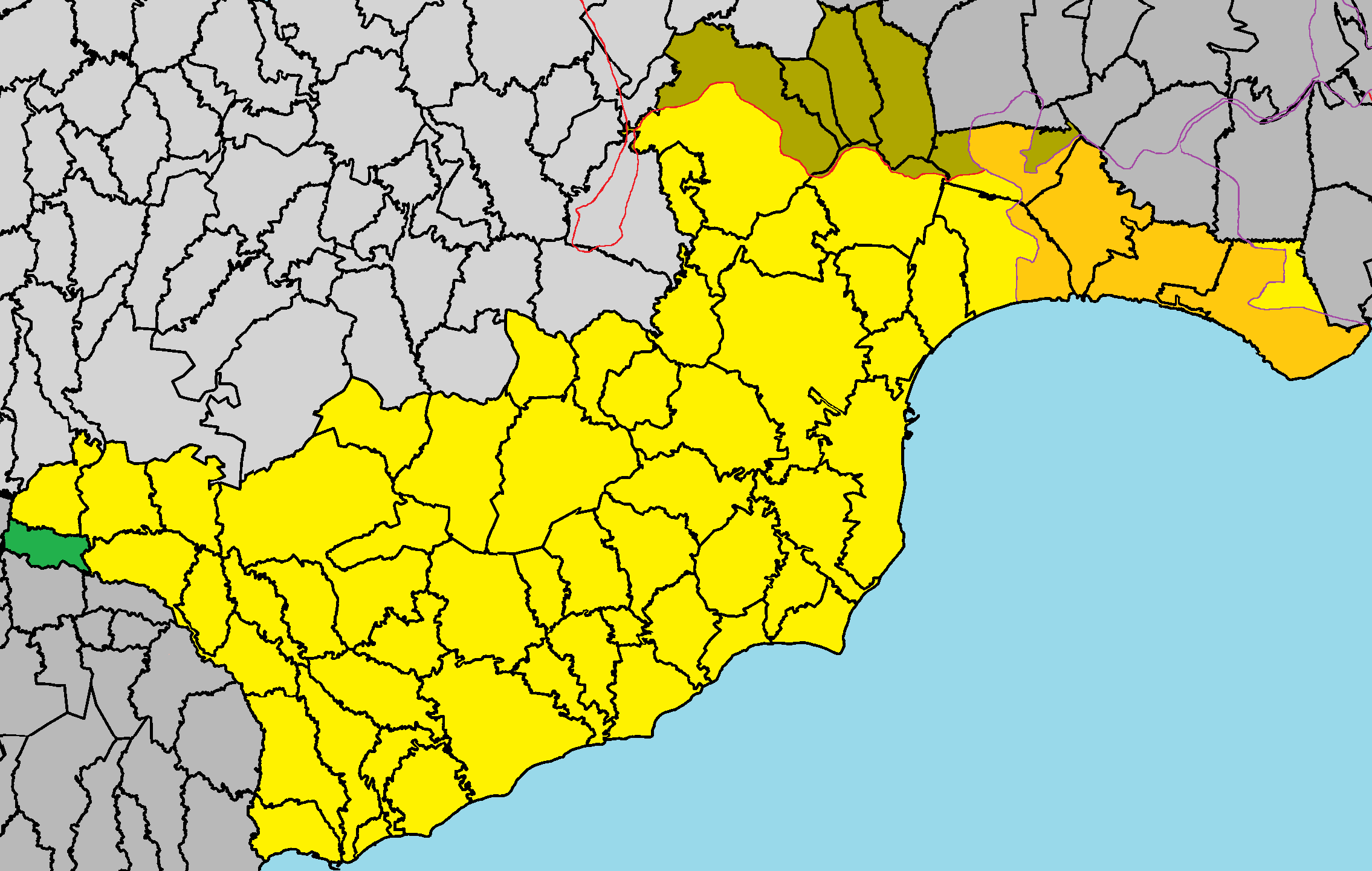 Melini in Larnaca District.